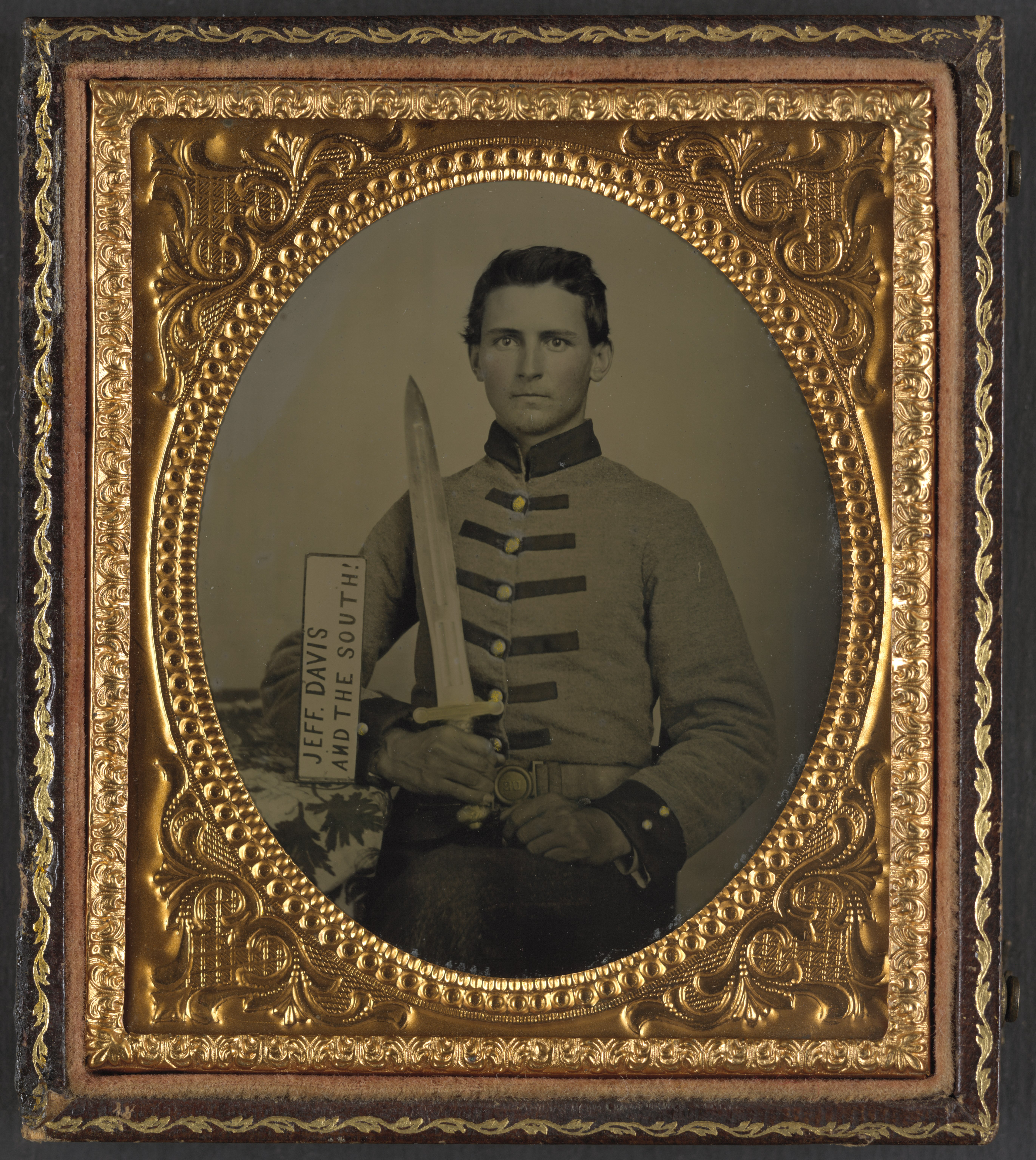 Title: Private Henry Augustus Moore of Co. F, 15th Mississippi Infantry Regiment, with artillery short sword and sign reading Jeff Davis and the South! Abstract/medium: 1 photograph : sixth-plate ambrotype, hand-colored ; 9.4 x 8.2 cm (case)